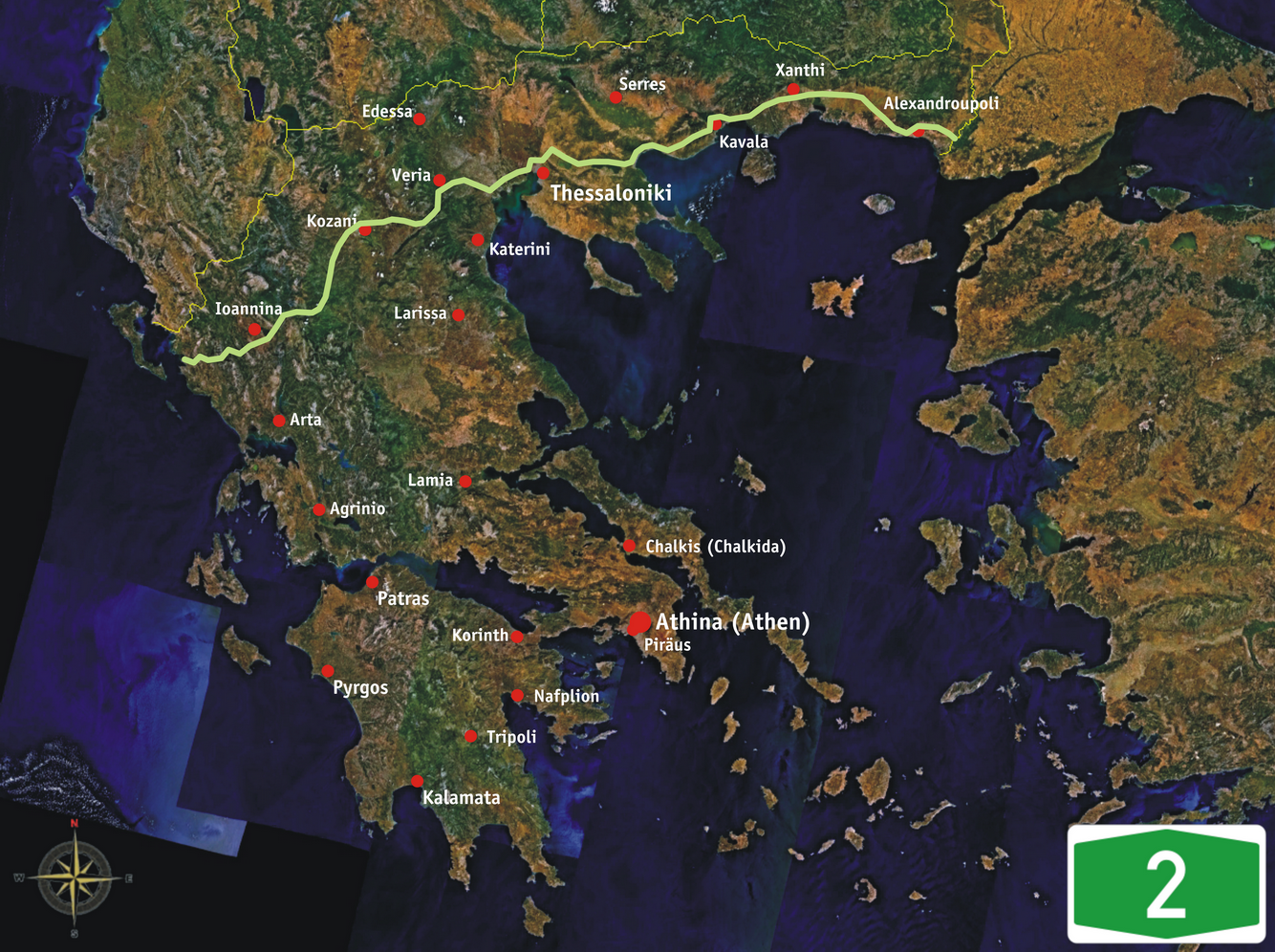 Course or track of Motorway (aftokinetodromos) A2 (Egnatia Odos) in Greece.